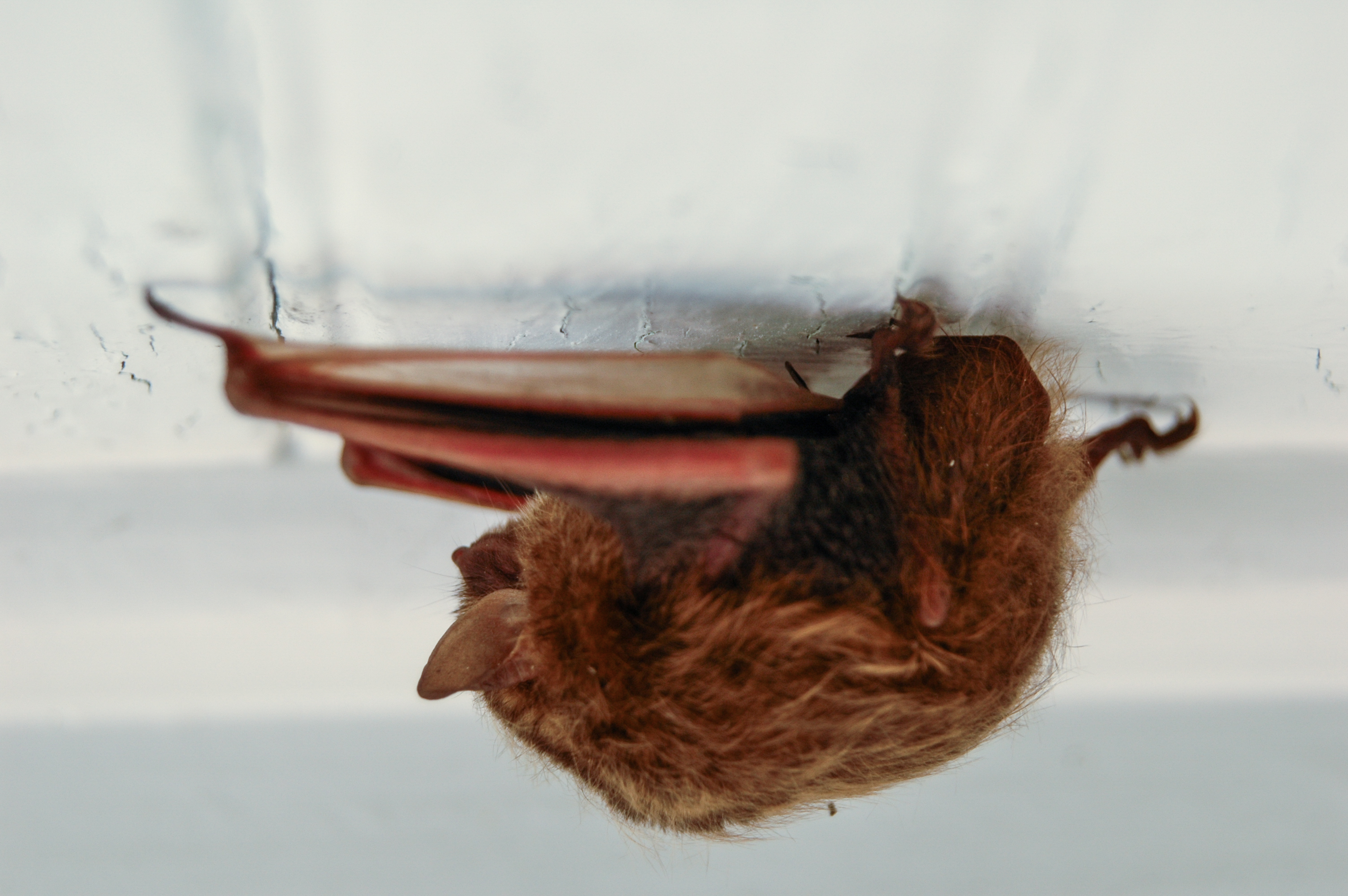 Little brown bat